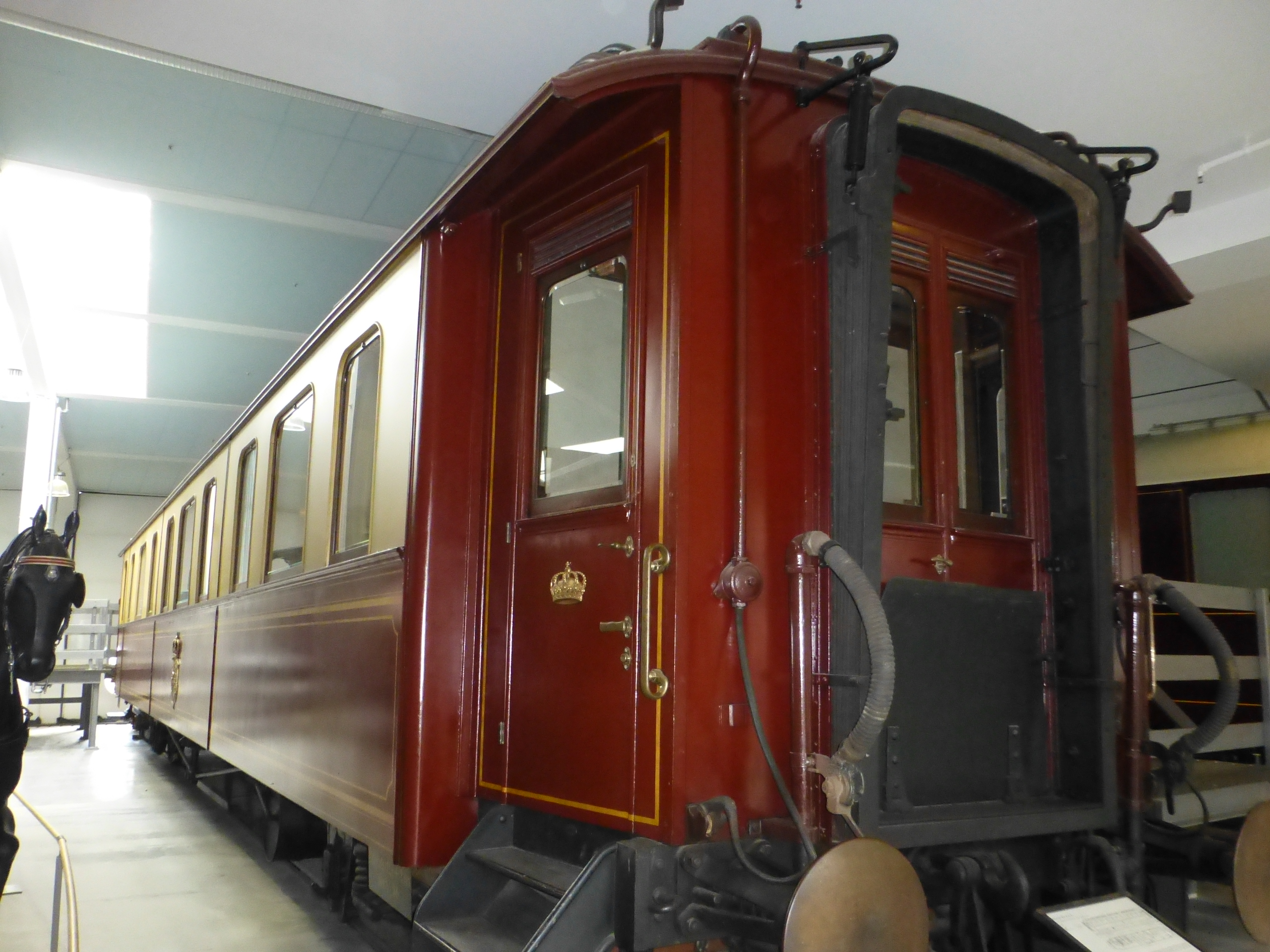 Royal car DSB 8 from 1900 at Danmarks Jernbanemuseum in Odense.